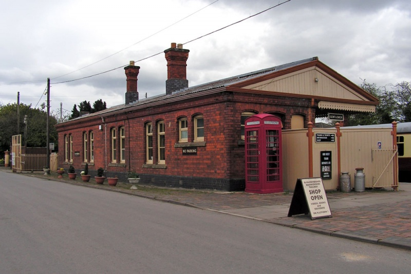 The main station building at Toddington railway station.